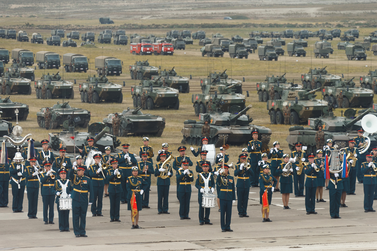 Military parade in Tsugol proving ground.